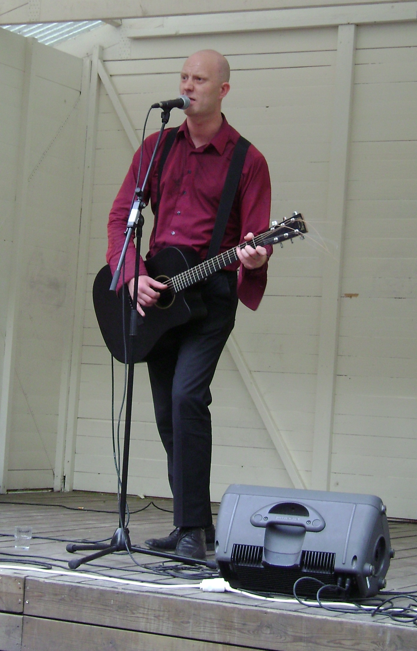 Loke Nyberg under en spelning i juli 2009.